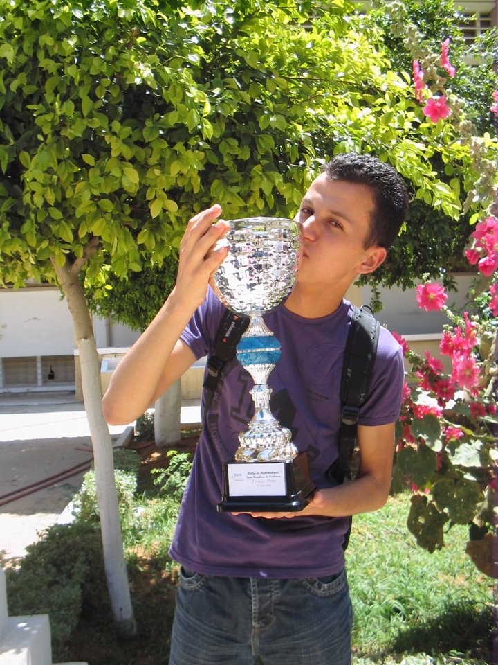 Coupe de toulouse